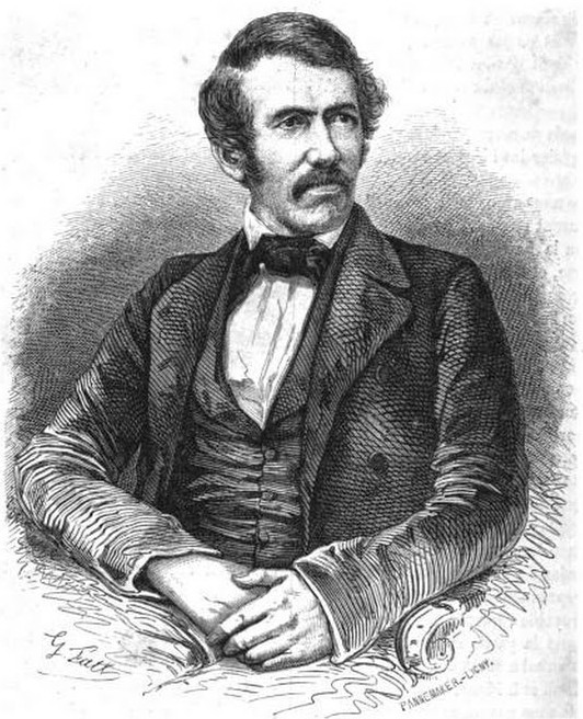 Portrait of Dr Livingstone.